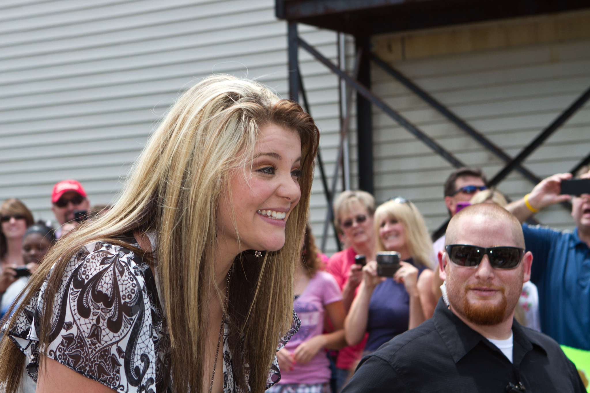 Lauren Alaina in Chattanooga, TN during her "hero's welcome" parade.